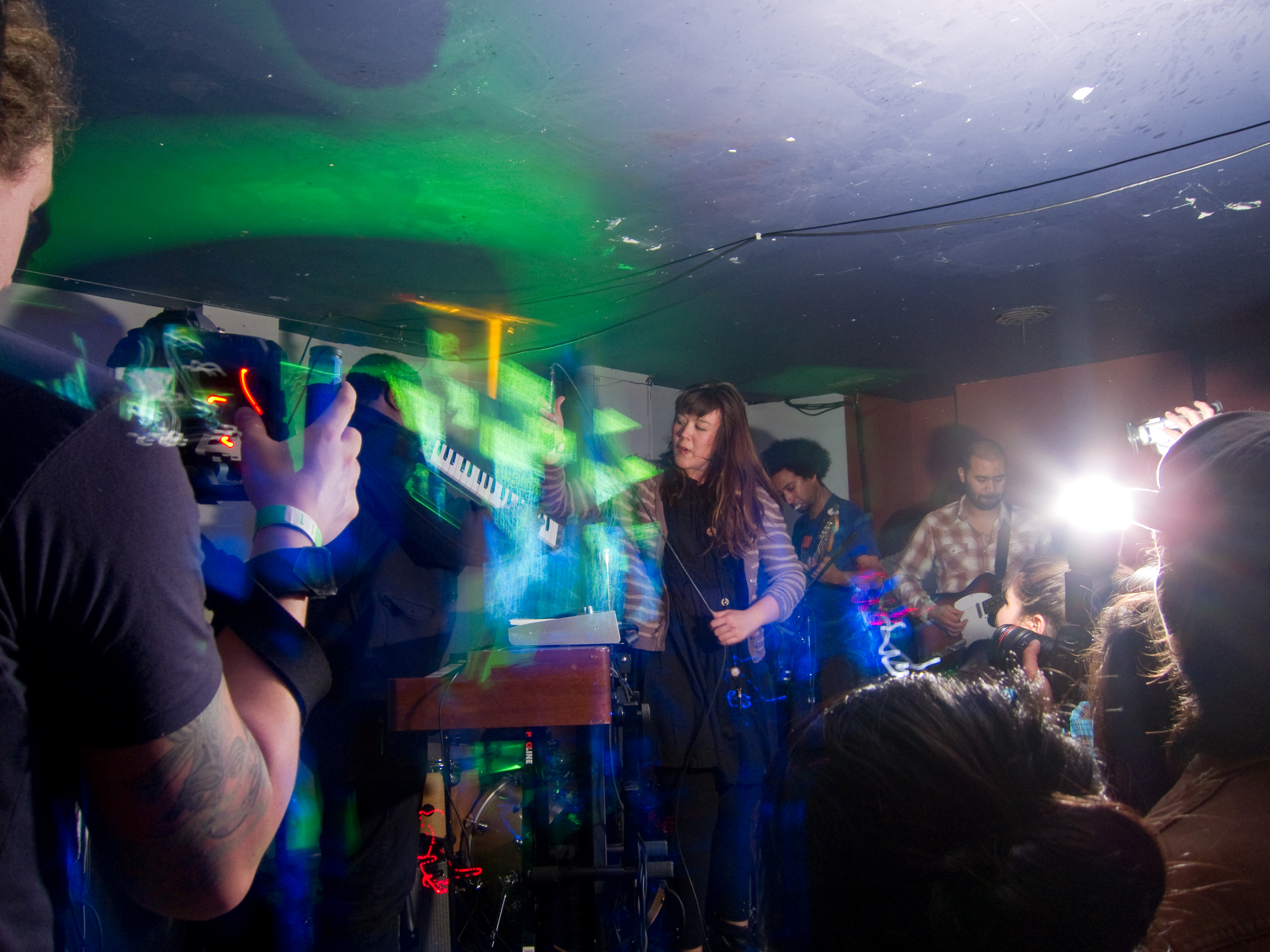 Free Moral Agents performing live at Low End Theory. Airliner Club, in the Highland Park district, Northeast Los Angeles, Southern California.